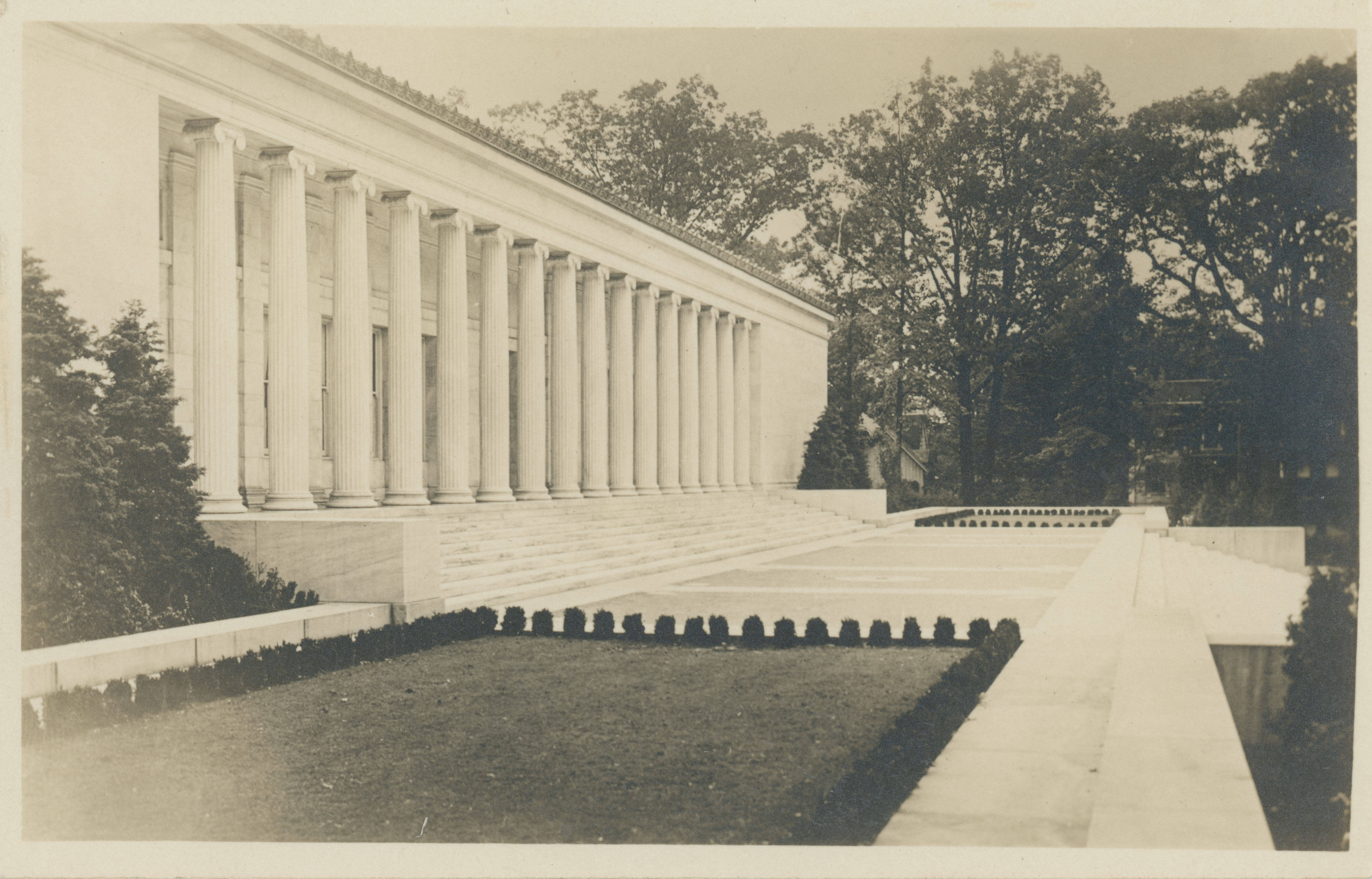 A postcard from the Ken Levin Toledo Postcard Collection, donated by Toledo resident, Ken Levin. The collection contains picture postcards about the Toledo area. Mr. Levin’s collection was published by the Toledo Blade in a book entitled “You Will Do Better in Toledo: From Frogtown to Glass City”, edited by Sandy and John R. Husman.